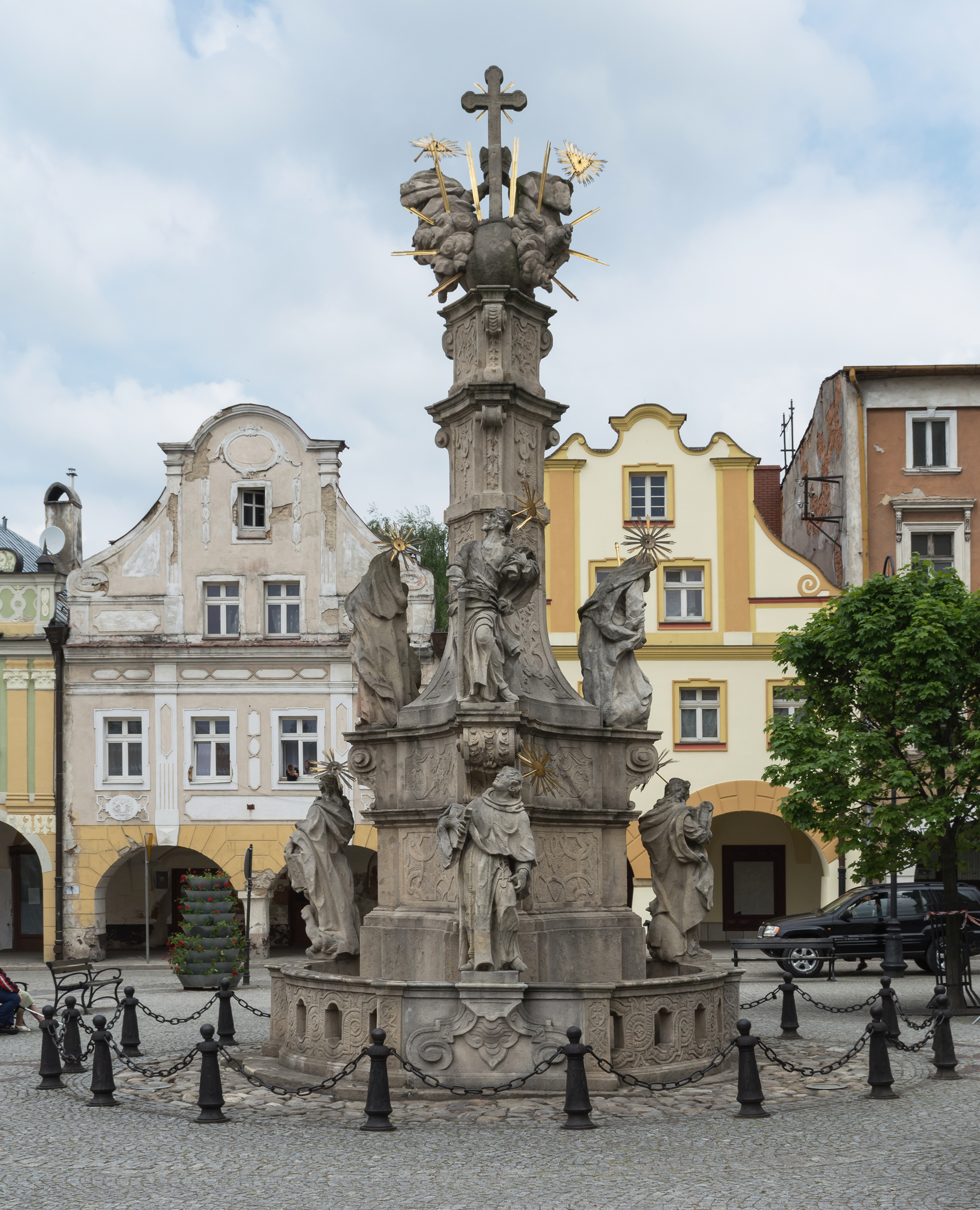 The Holy Trinity Column in Lądek-Zdrój